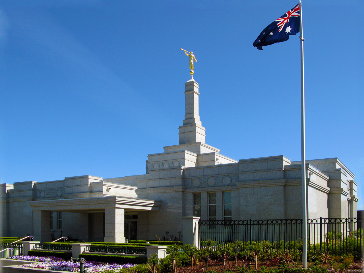 The Melbourne Australia Temple of The Church of Jesus Christ of Latter-day Saints.